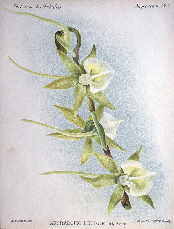 Angraecum eburneum